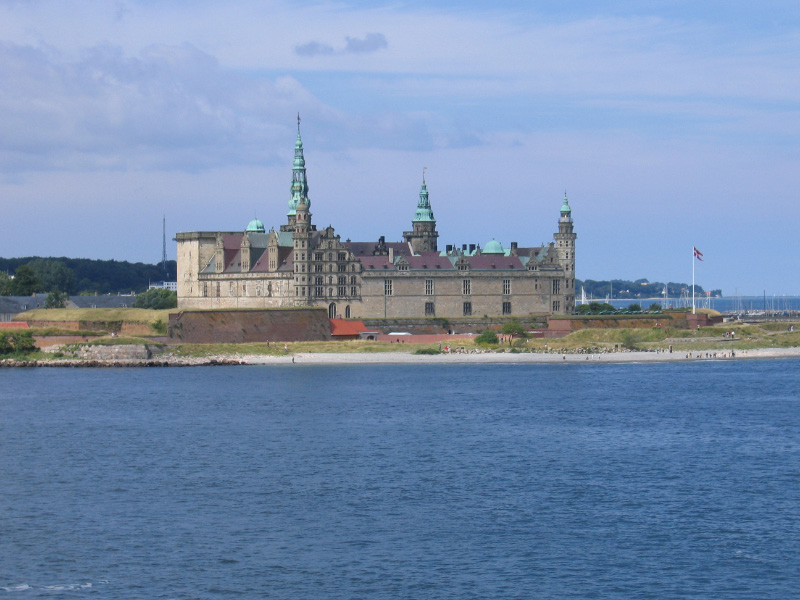 Kronborg Castle in Elsinore, Denmark